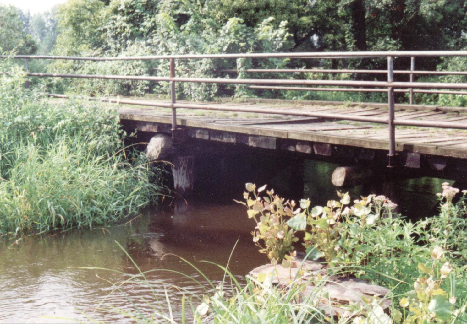 Bridge in Rawka River (Lodz Voivodship, Poland)